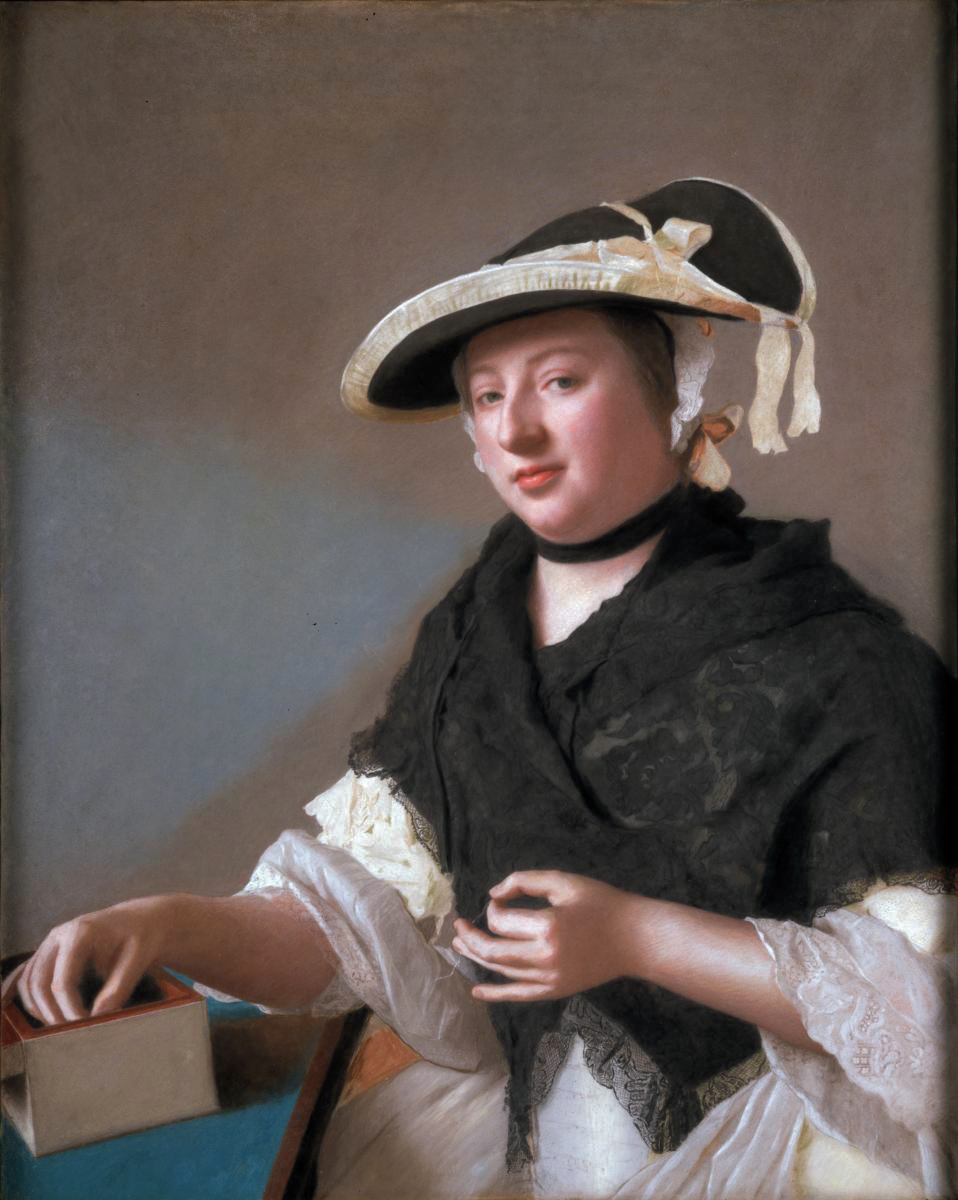 Harriet Churchill, Lady Fawkener pastel on vellum 73,6 x 58,8 cm circa 1760 Reference CVCSC:0288.B